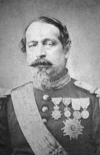 Napoleon III of France, Charles-Louis Napoleon Bonaparte